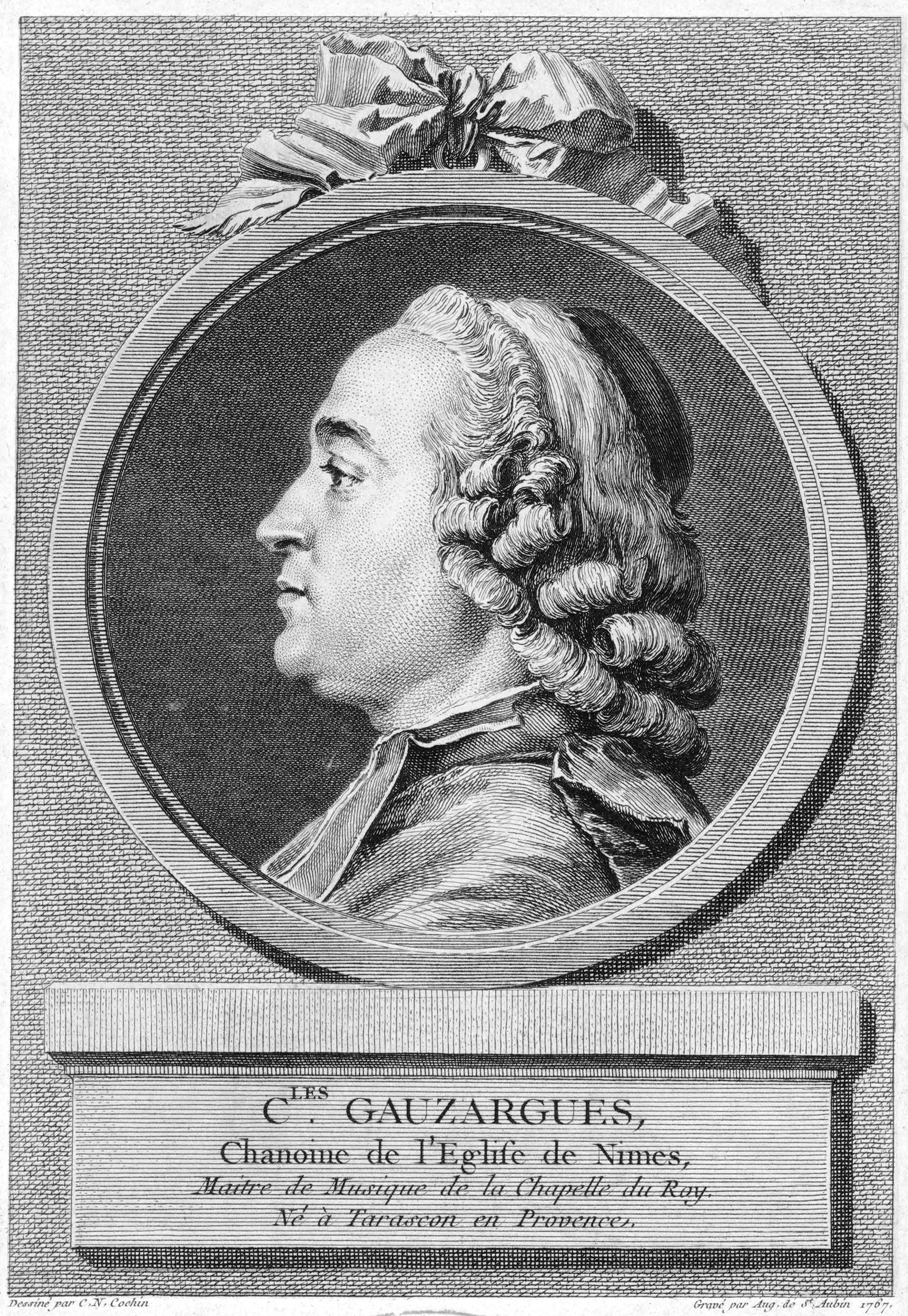 Portrait of Charles Gauzargues (1725-1799), French composer